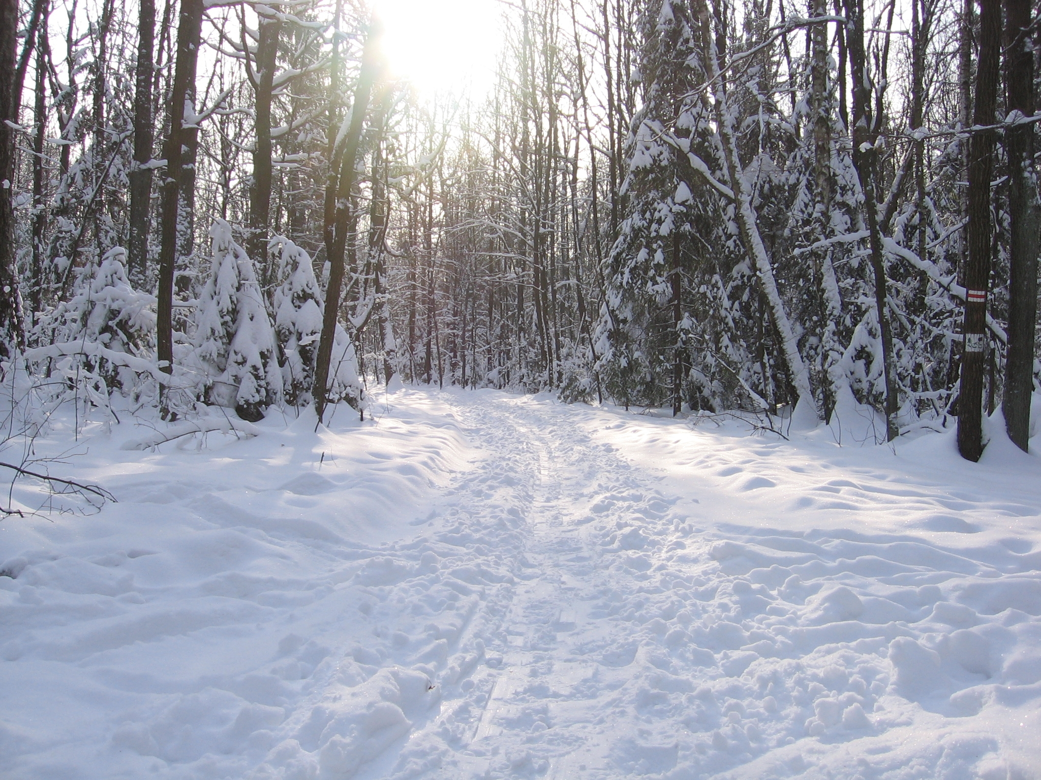 Łagiewniki Forrest in Winter